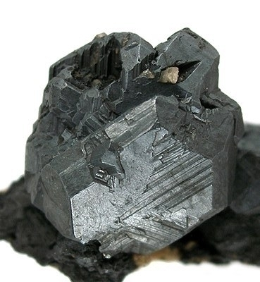 Chalcocite Locality: St Ives Consols (incl. Wellesley Mine; Wheal Mary), St Ives, St Ives District, Cornwall, England, UK (Locality at ) Size: 3.3 x 2.2 x 1.6 cm. This fine thumbnail specimen features a single, extremely well-formed, robust crystal to almost 2 cm It is perched freestanding off of matrix of massive chalcocite. This piece has textbook crystallography. I haven't seen one this fine, of this habit, save in books from the early 1800s such as Sowerby and Rashleigh. This exquisite miniature is complete all around and nearly pristine....probably because it has been in a box for over 150 years, as part of the collection of Traverso, a major Italian collector of the early 1800s. Ex. G.B. Traverso Collection.